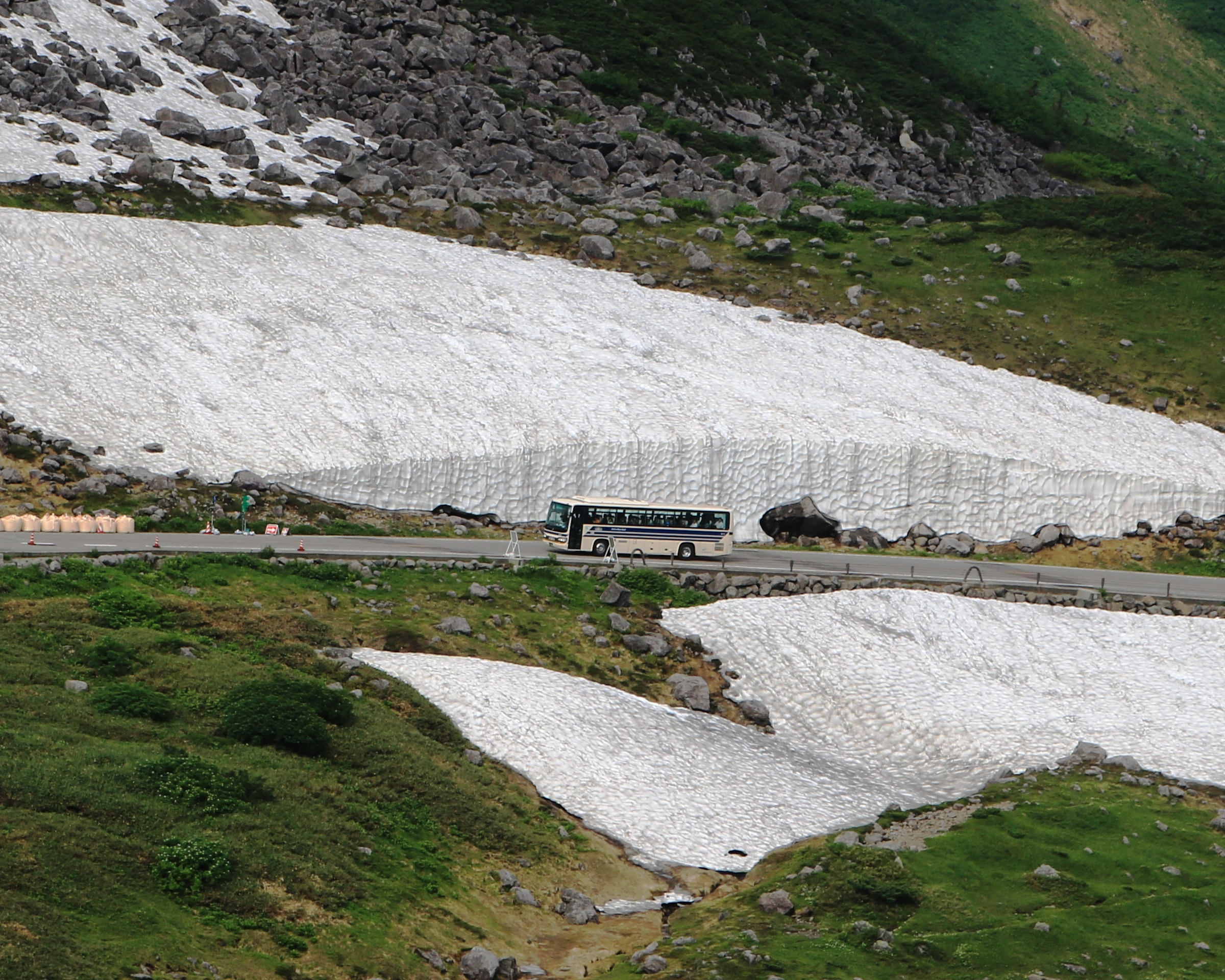 Tateyama Highland Bus (Hino Selega Hybrid) at Yuki-no-otani near Murodo Station of Tateyama Kurobe Alpine Route in Tateyama, Toyama prefecture, Japan.